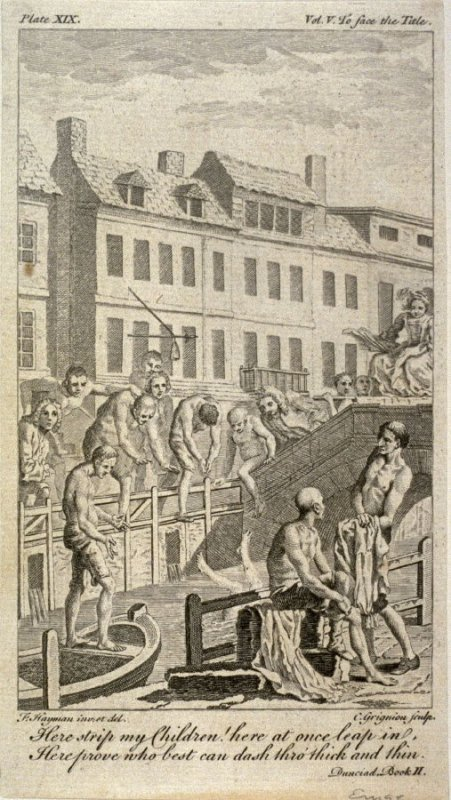 Plate XIX (Frontispiece) from William Warburton, ed., The Works of Alexander Pope Esq., Vol. V, The Dunciad (London, 1751). Engraving by Charles Grignion the Elder after Francis Hayman. Quote by Alexander Pope.